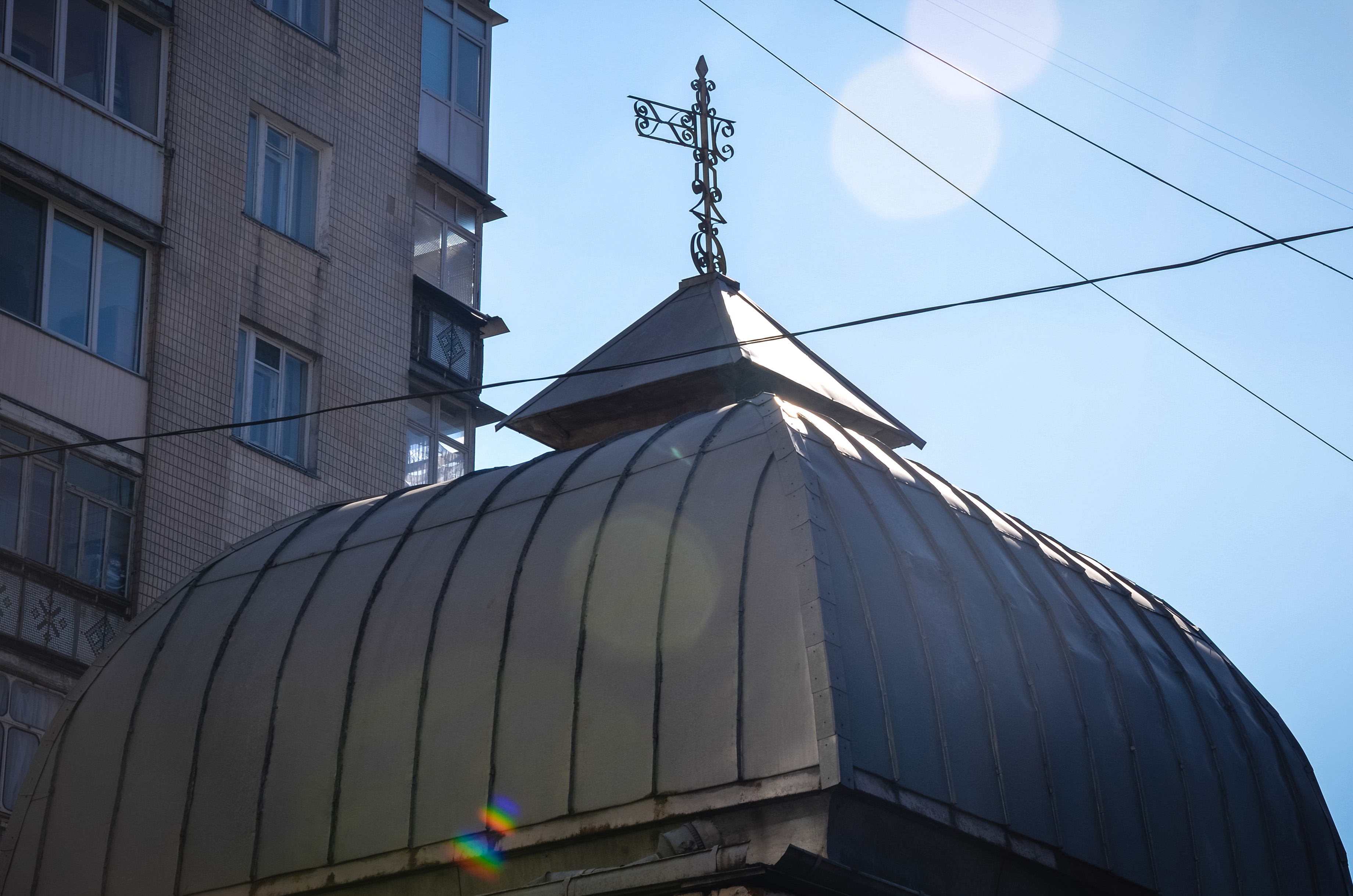 Ажурний кований флюгер на даху будинку нотаріуса Шпігеля, 8 березня 2015 р.